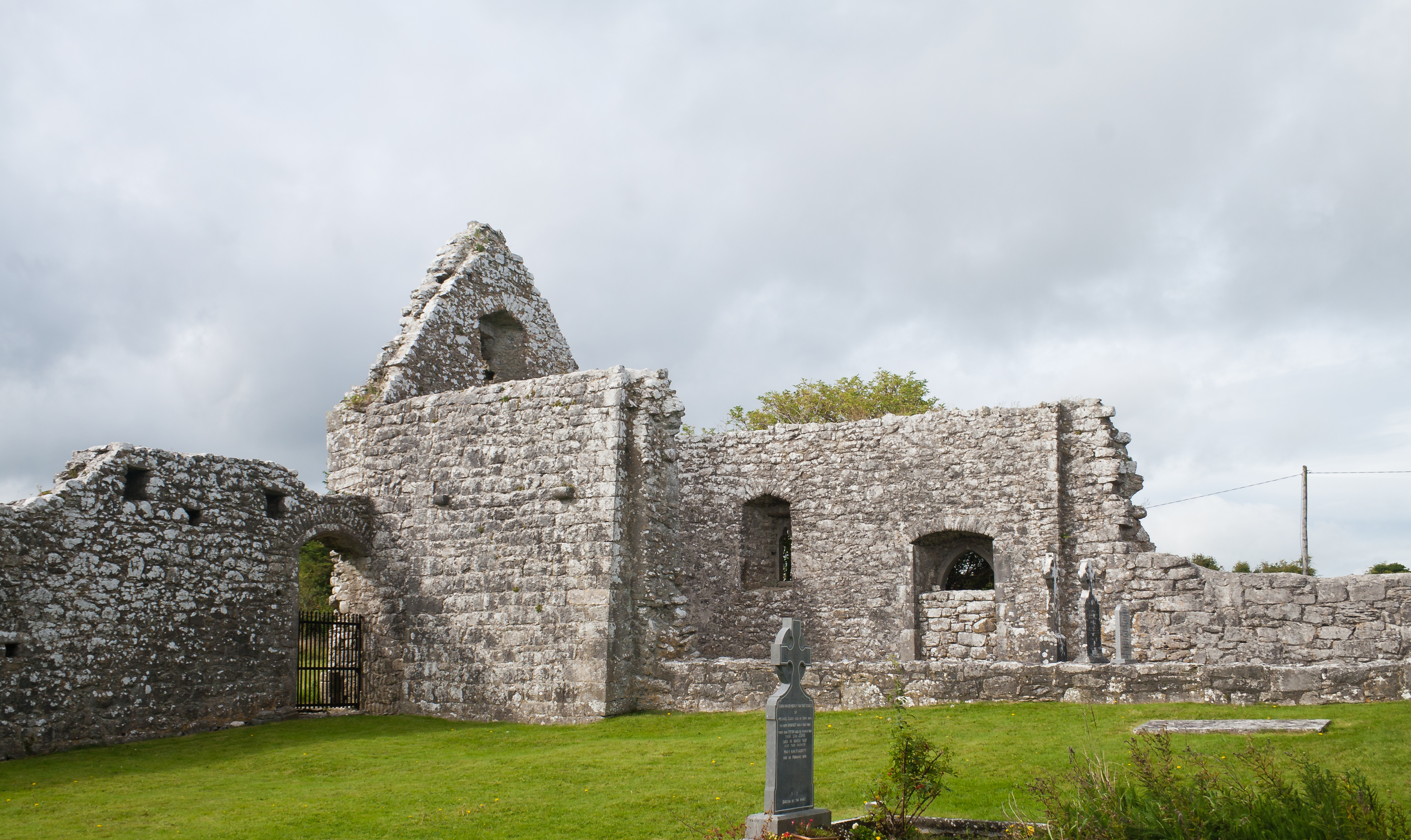 View from the cloister to the western end of the nave.